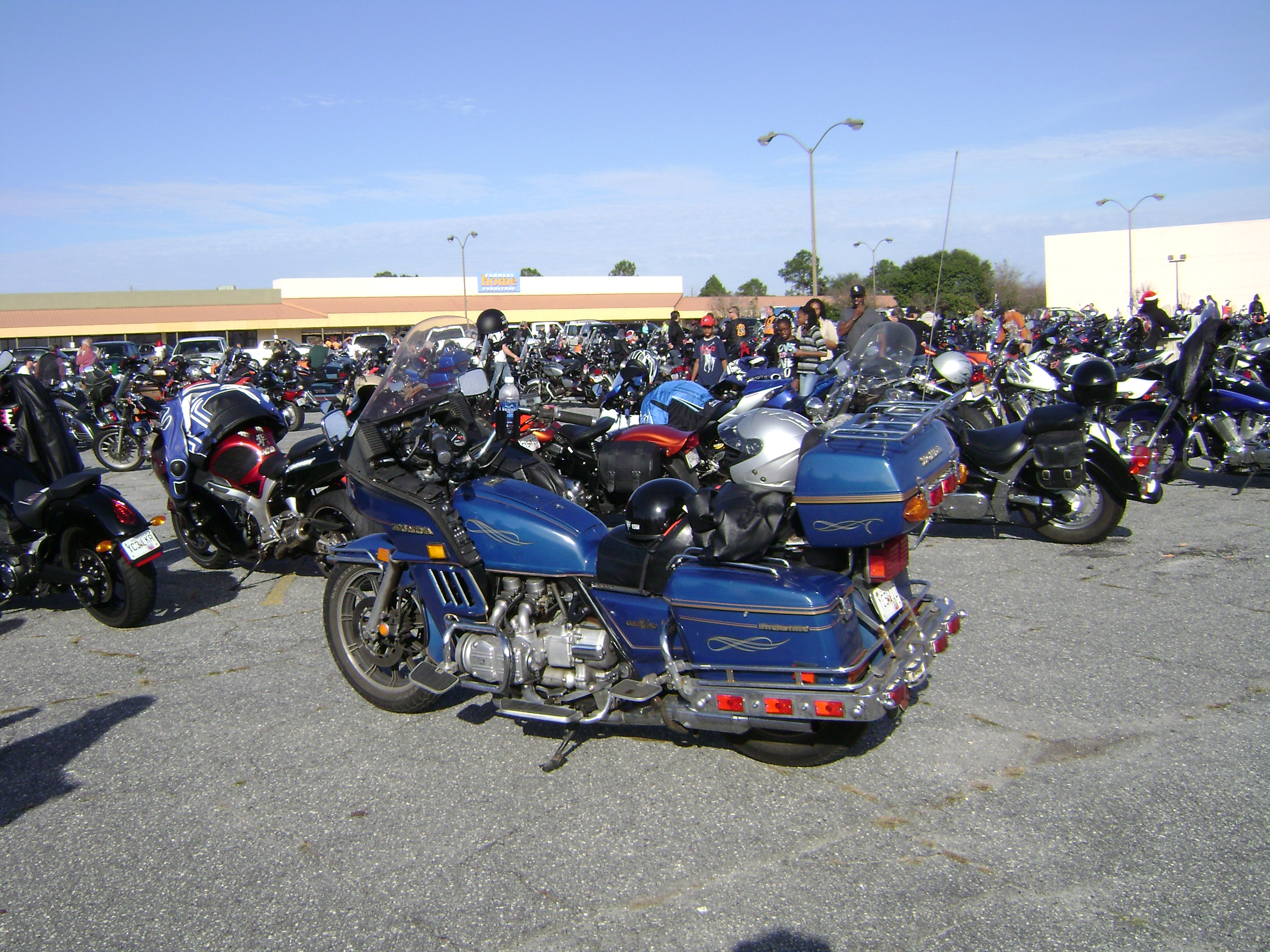 Valdosta Outback Rider's 2012 Toy Run